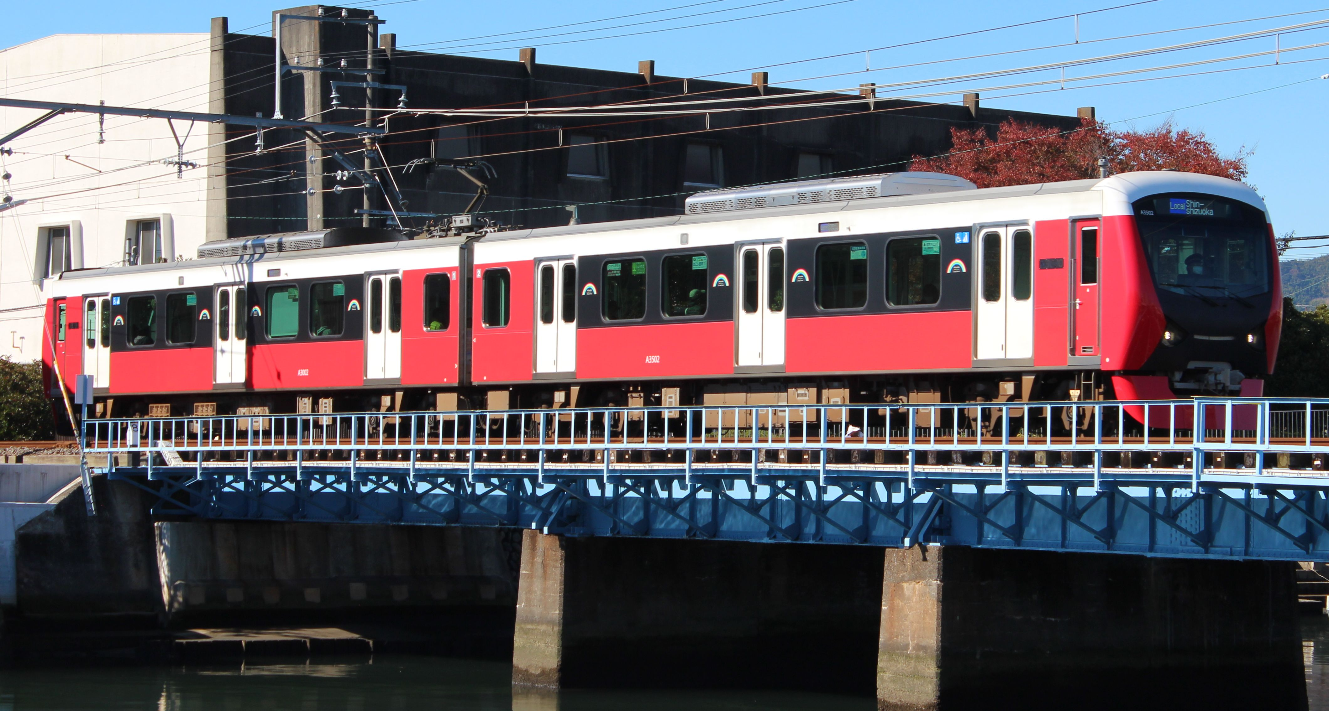 Shizuoka Railway A3000 series EMU set A3002 between Irieoka and Shin-Shimizu stations